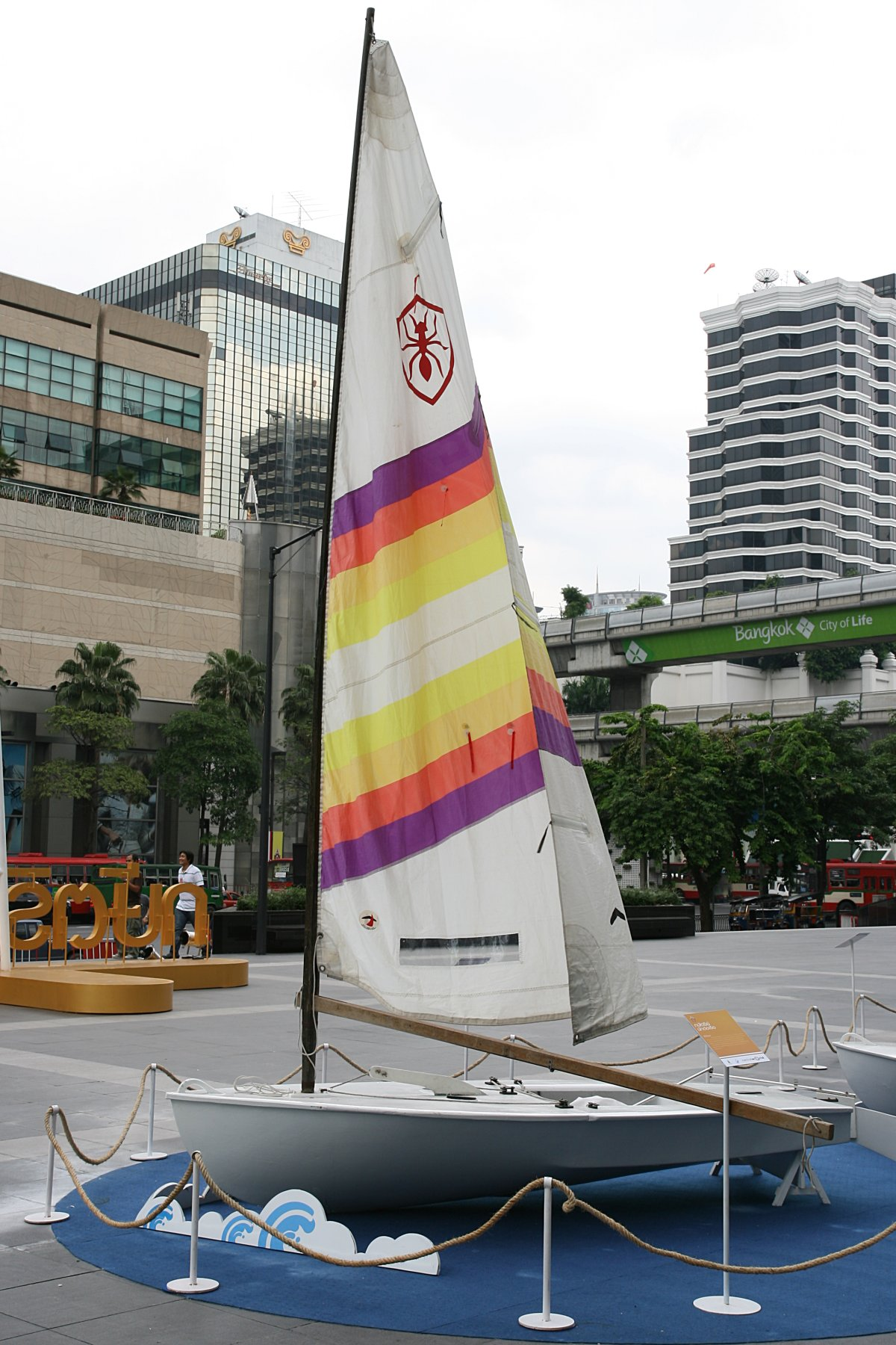 Moth class dinghy Mod built according to the design by King Bhumibol, on public display at CentralWorld, Bangkok during 15-20 May 2007.